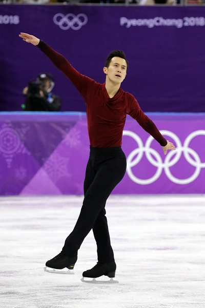 Patrick Chan (CAN) skates his free program at the 2018 Winter Olympic Games in PyeongChang (KOR)